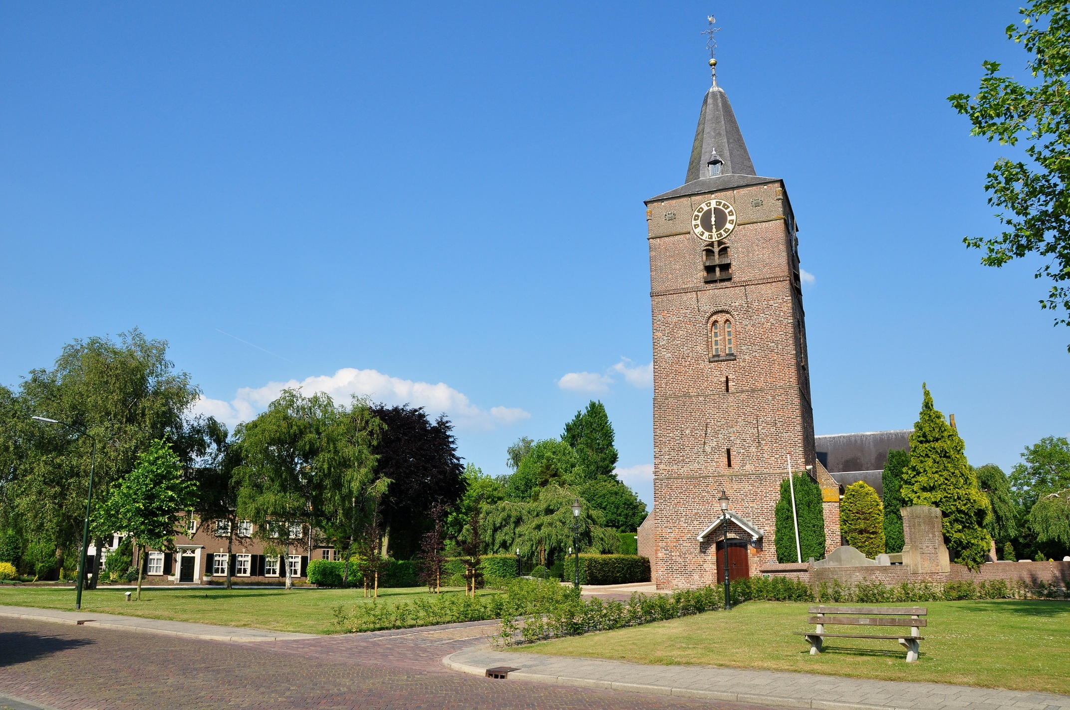 Town centre of Veen, with Dutch Reformed church (Province of North Brabant, Netherlands).